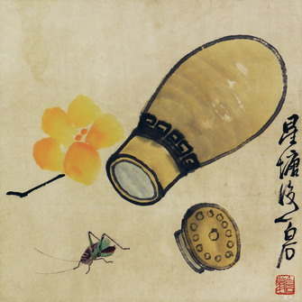 A pet cricket and cricket hous made of a gourd.